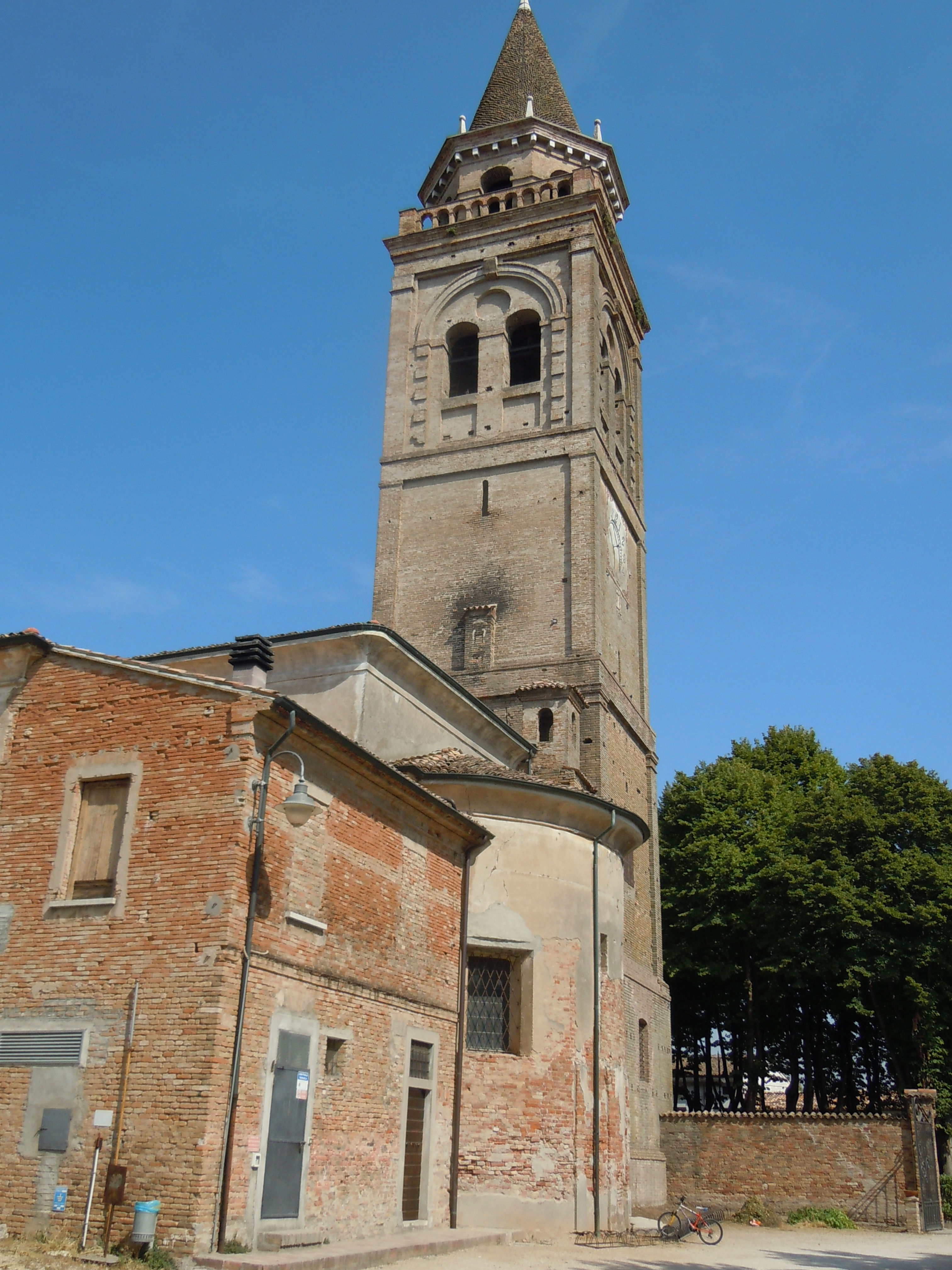 Acquanegra sul Chiese, campanile della chiesa di San Tommaso.